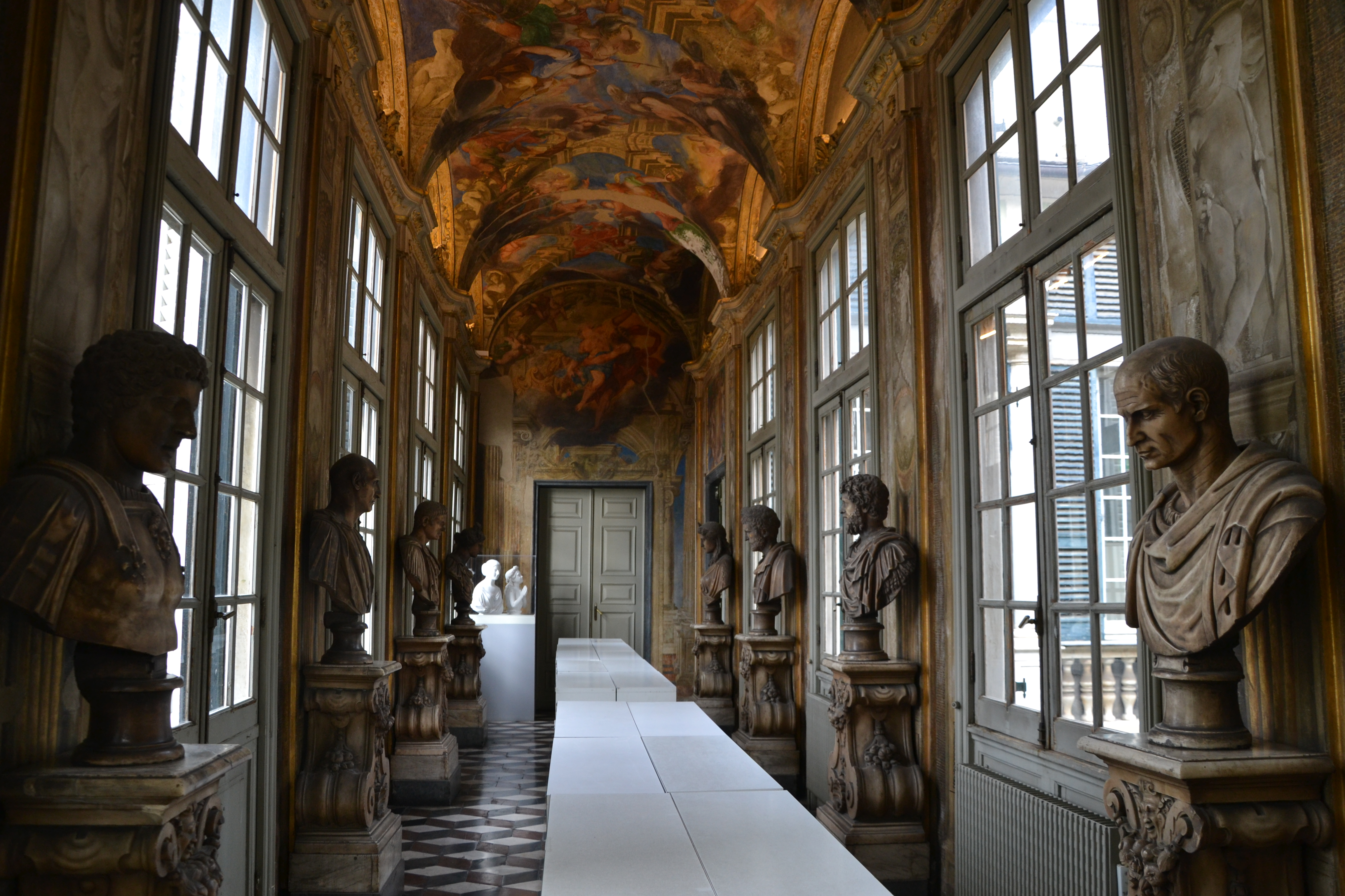 Palazzo Balbi Senarega, University of Genoa, Via Balbi 4 - Valerio Castello frescos (1654-59)